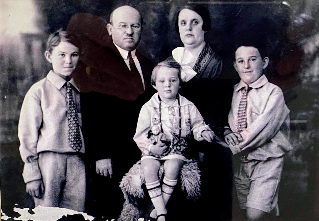 Baruch, Chana, Eliyahu, Eliezer and Rachel Ben-Tovim, Tel-Aviv 1930